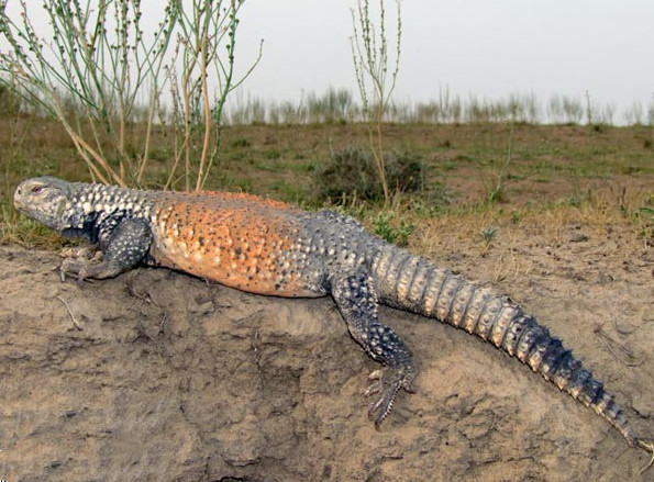 Uromastyx loricata in Iran